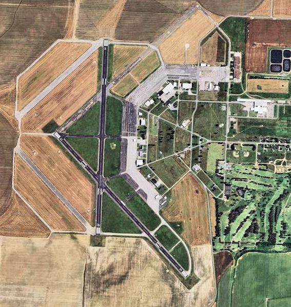 USGS digital orthophoto of Malden Regional Airport in Missouri